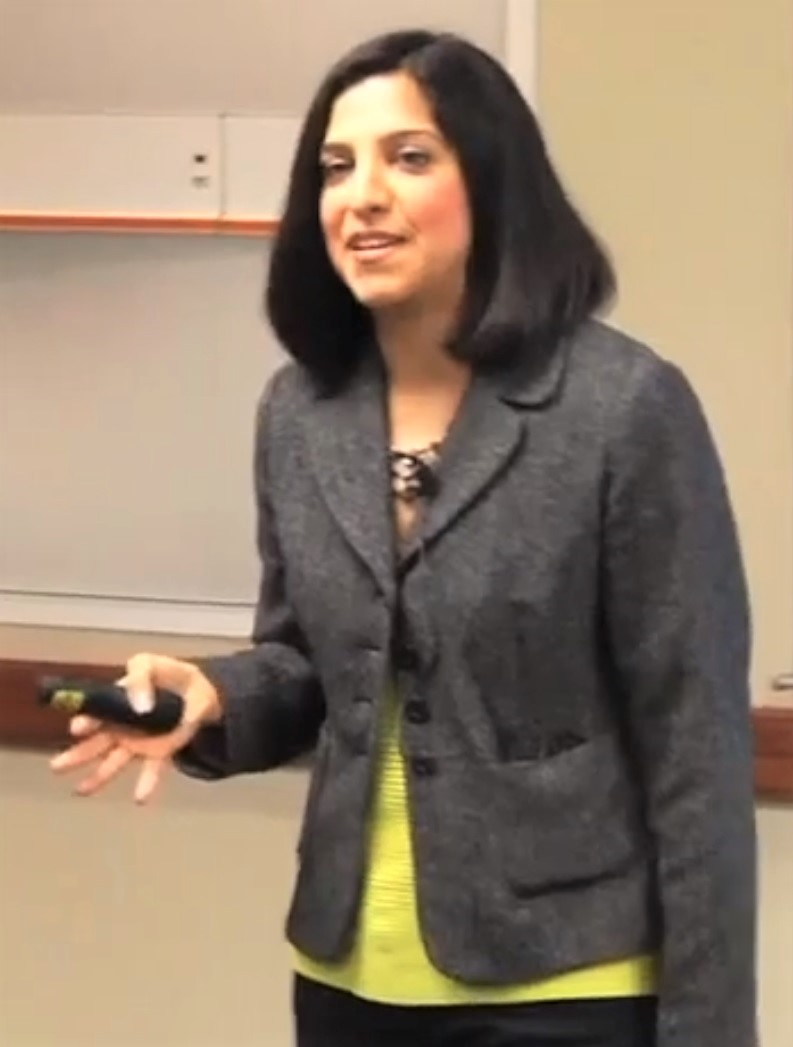 Vineet Arora - The Good Old Days (February 22, 2012) The Good Old Days" Evidence of Old World Professionalism in Modern Day Residency Trainees Chair: Vineet Arora, MD, University of Chicago Wednesday, February 22, 2012 This lecture is part of an ongoing seminar series on Medical Professionalism and the Future of American Medicine The views expressed by Dr. Arora are not necessarily those of the MacLean Center.